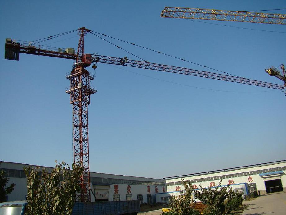 Tower Cranes